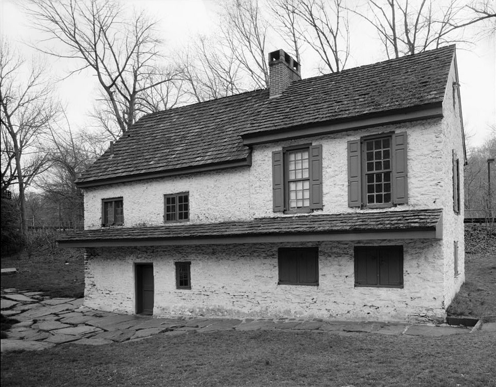 "Claus Rittenhouse House" (Rittenhouse homestead), Lincoln Drive & Rittenhouse Street, Philadelphia, PA Building/structure dates: 1707 initial construction. Significance: The building is one of the earliest surviving structures constructed by German-speaking people in the State of Pennsylvania. The building and site also possess exceptional significance as an industrial community and for the association to various members of the Rittenhouse family. The site is an important industrial community whose history spans the 17th, 18th, and 19th centuries and is the core of an industrial village that once included over forty industrial, agricultural, institutional, and domestic structures. Astronomer David Rittenhouse was born in this house, the great-grandson of the original owner, William Rittenhouse.